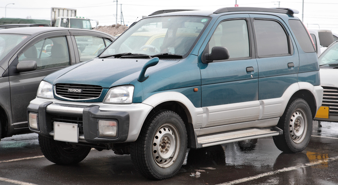 Daihatsu Terios 1.3 CX